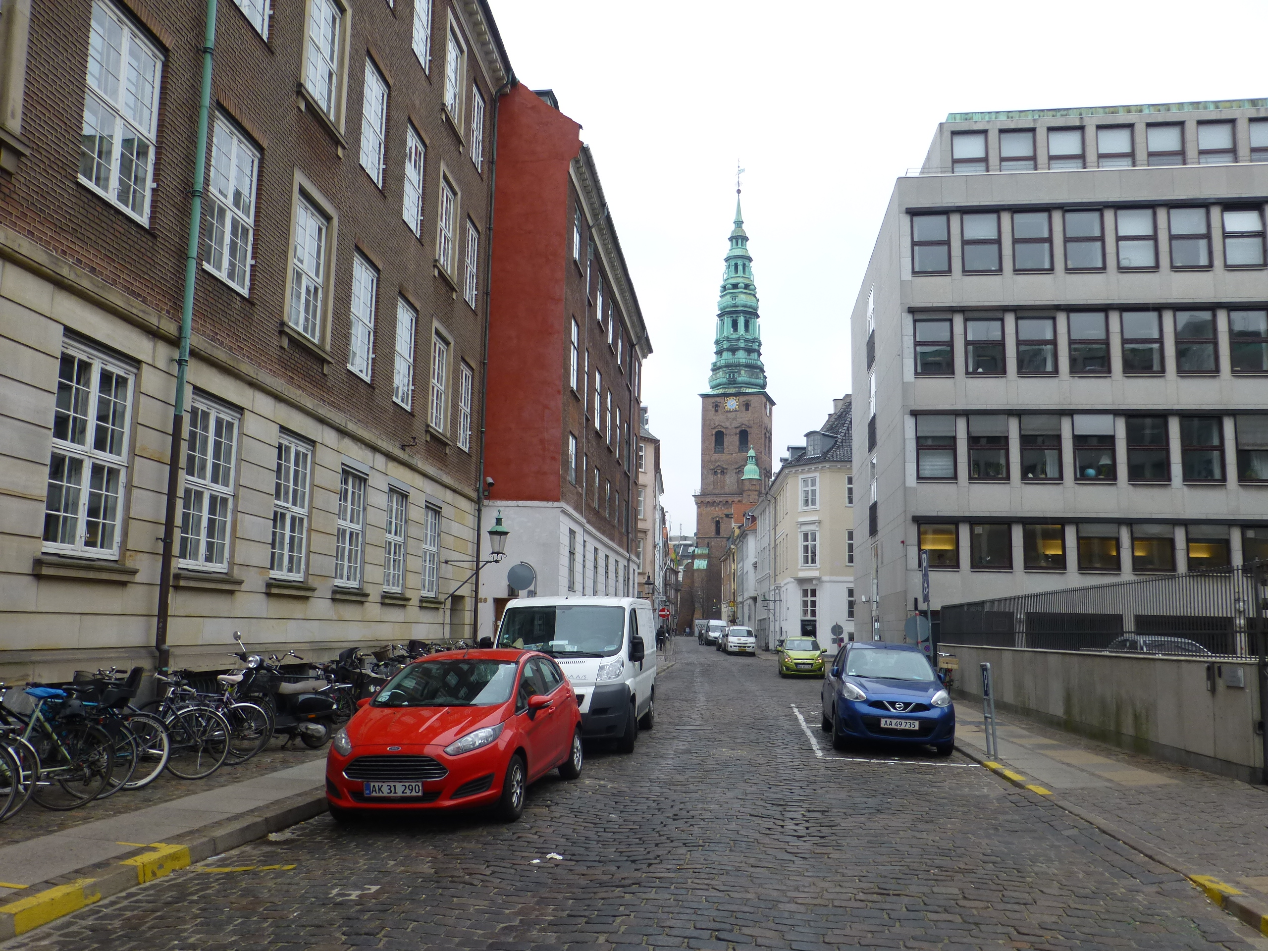 The street Admiralgade in Indre By in Copenhagen. In the background the tower of Kunsthallen Nikolaj.